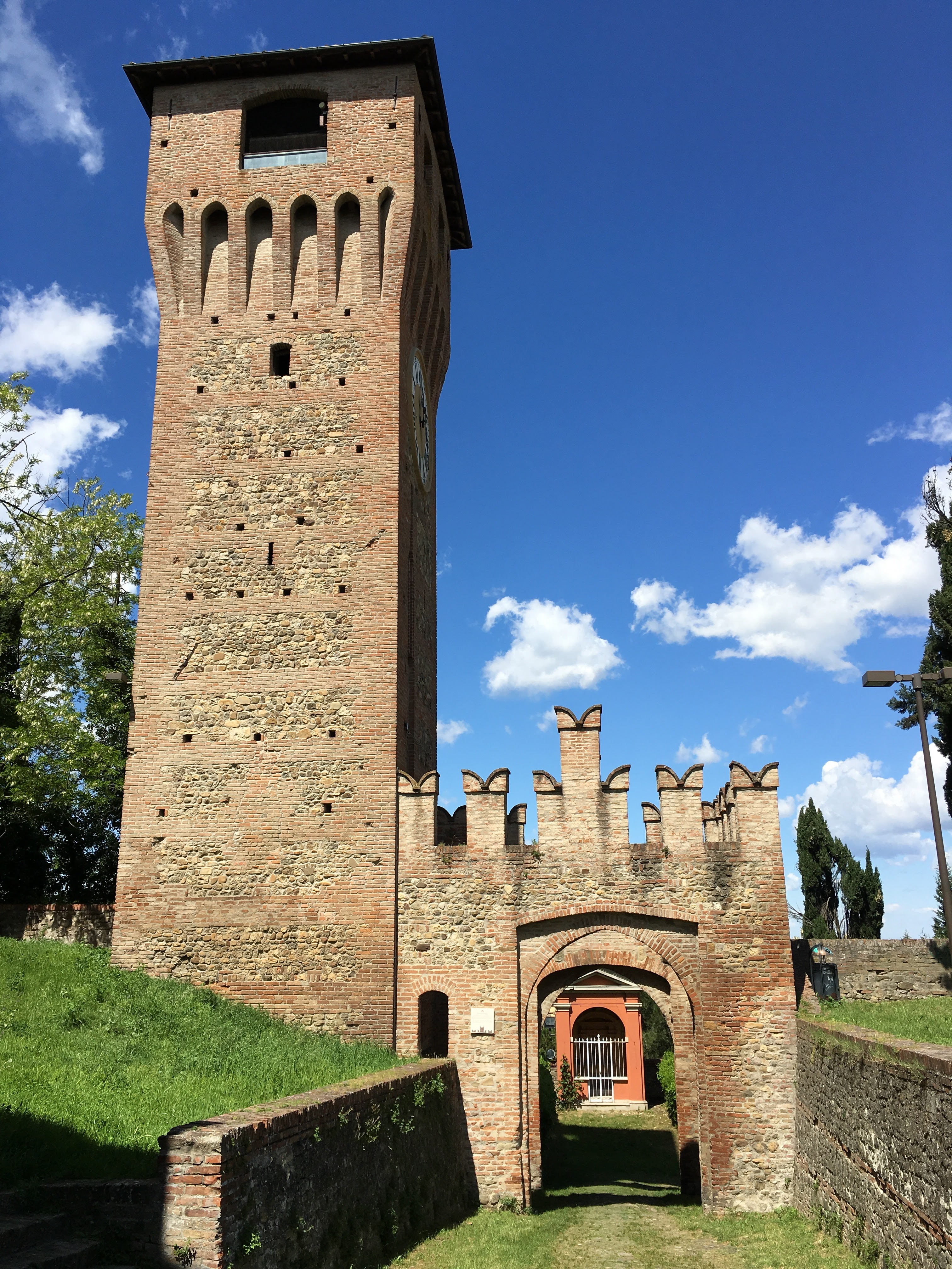 Bentivoglio's Rocca in Bazzano, Italy